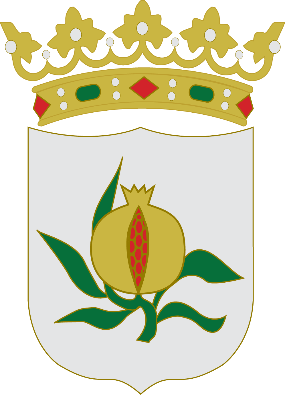 Coat of arms of the Kingdom of Granada